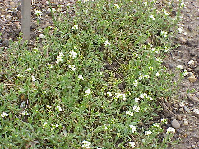 Species: Draba lanceolata Family: Brassicaceae Image No. 2